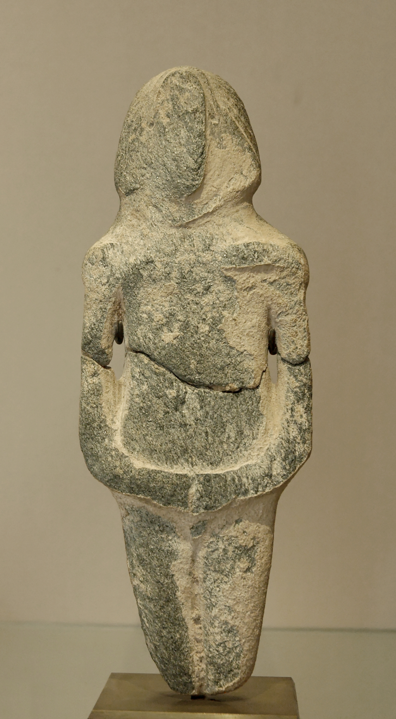 Human figurine. Steatite, end of the 6th millenium BC, South-Eastern Iran.